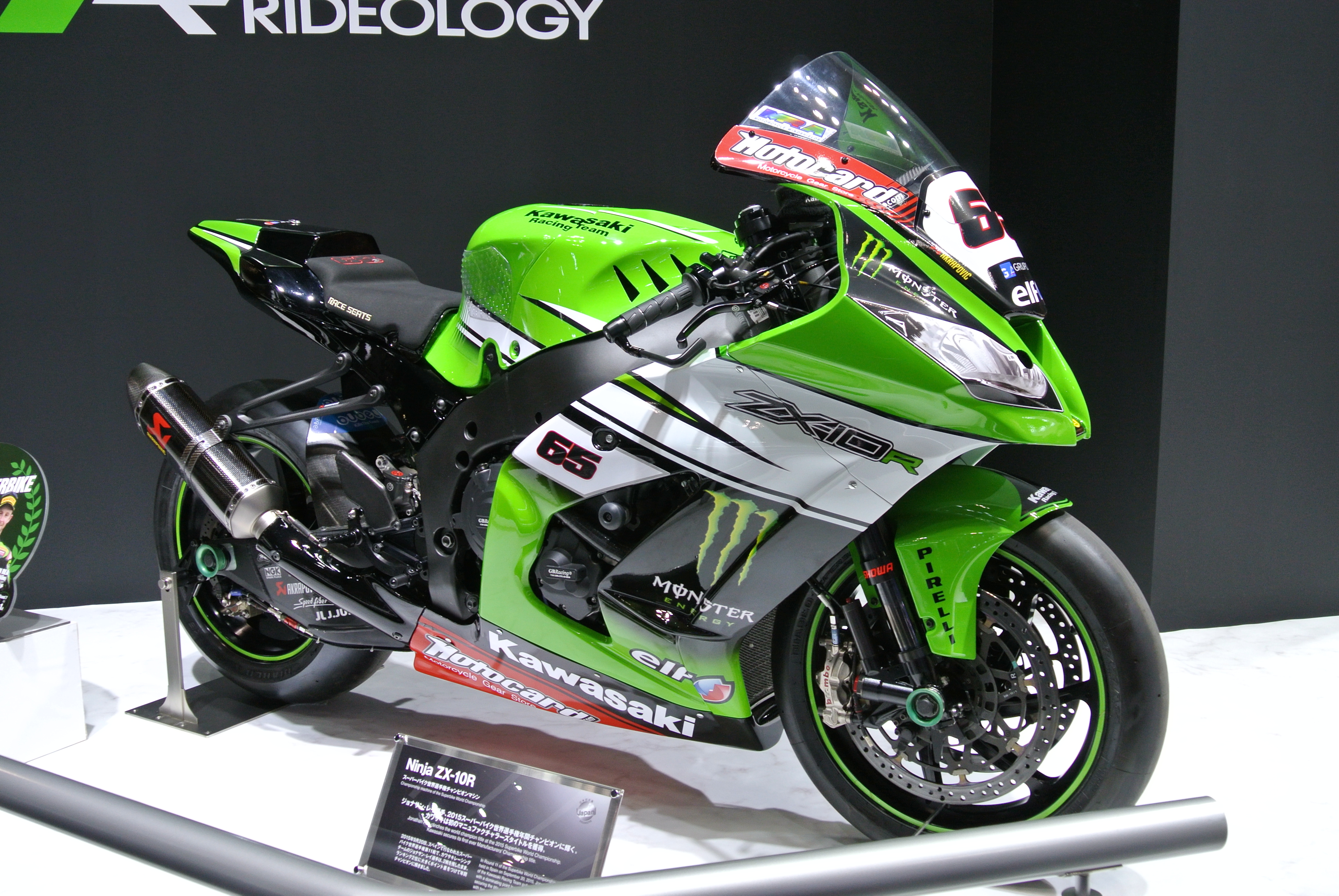 2015 World Superbike Champion's Kawasaki Ninja ZX-10R at the Tokoyo Motor Show 2015. #65 Jonathan Rea